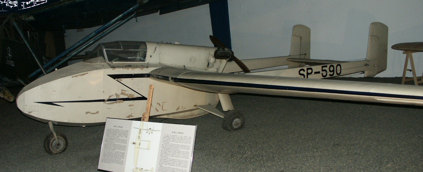 Polish motor glider HWL Pegaz in the Polish Aviation Museum in Kraków.